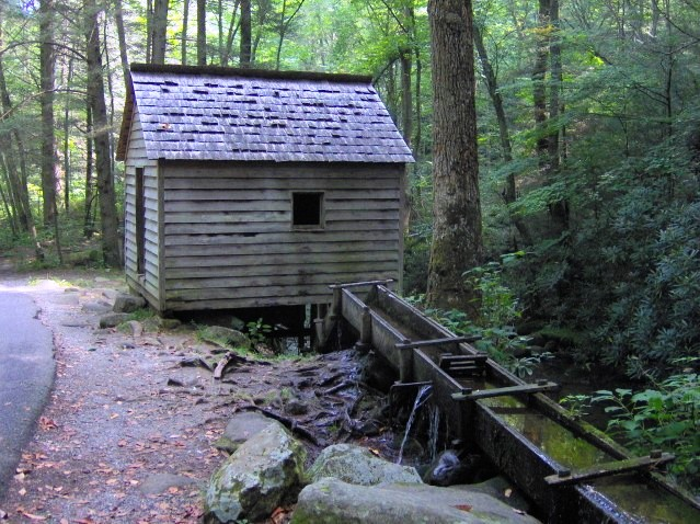 Alfred Reagan's tub mill in the Roaring Fork Historic District, GSMNP, in East Tennessee. The flume in the foreground diverted water from Roaring Fork, which splashed over and turned the mill's tub-wheel turbine (under the millhouse, out of picture). The turbine turned a grindstone in the millhouse which broke down corn and wheat into corn meal and flour. The mill, constructed around 1900, is still operational.